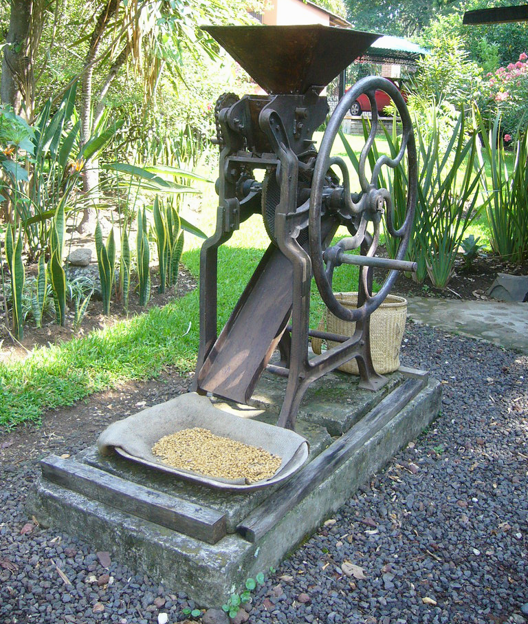 Old coffee mill in the city of Coatepec, Veracruz, Mexico